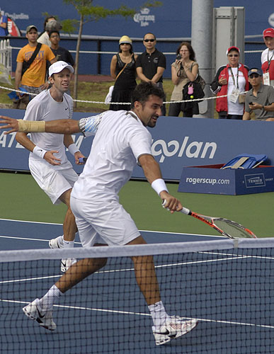 Daniel Nestor & Nenad Zimonjic playing at the 2008 Rogers Cup